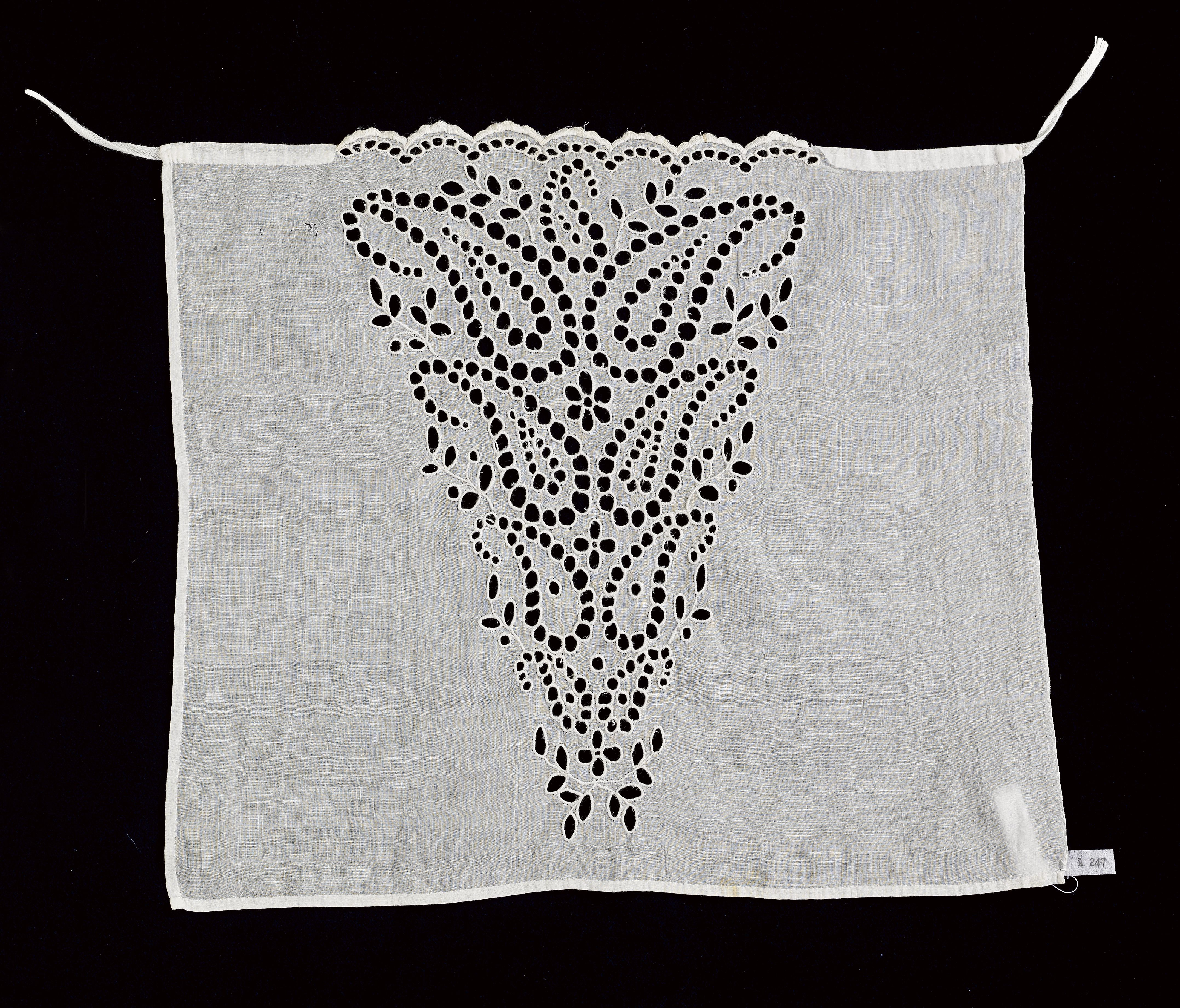 Costume Accessory-Modestie